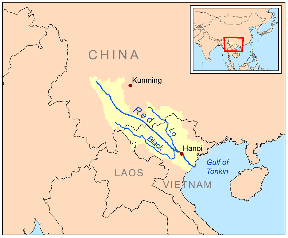 This is a map of the Red River drainage basin.